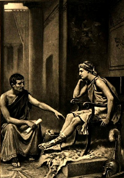 Aristotle tutoring Alexander by J L G Ferris 1895